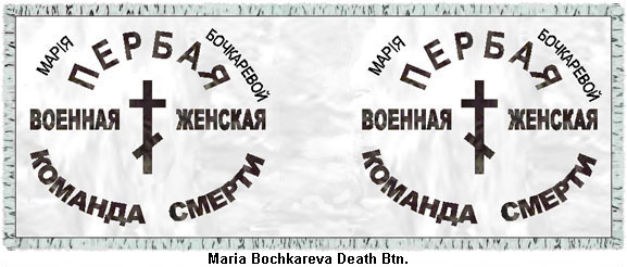 Flag of the Maria Bochkareva Death Batallion